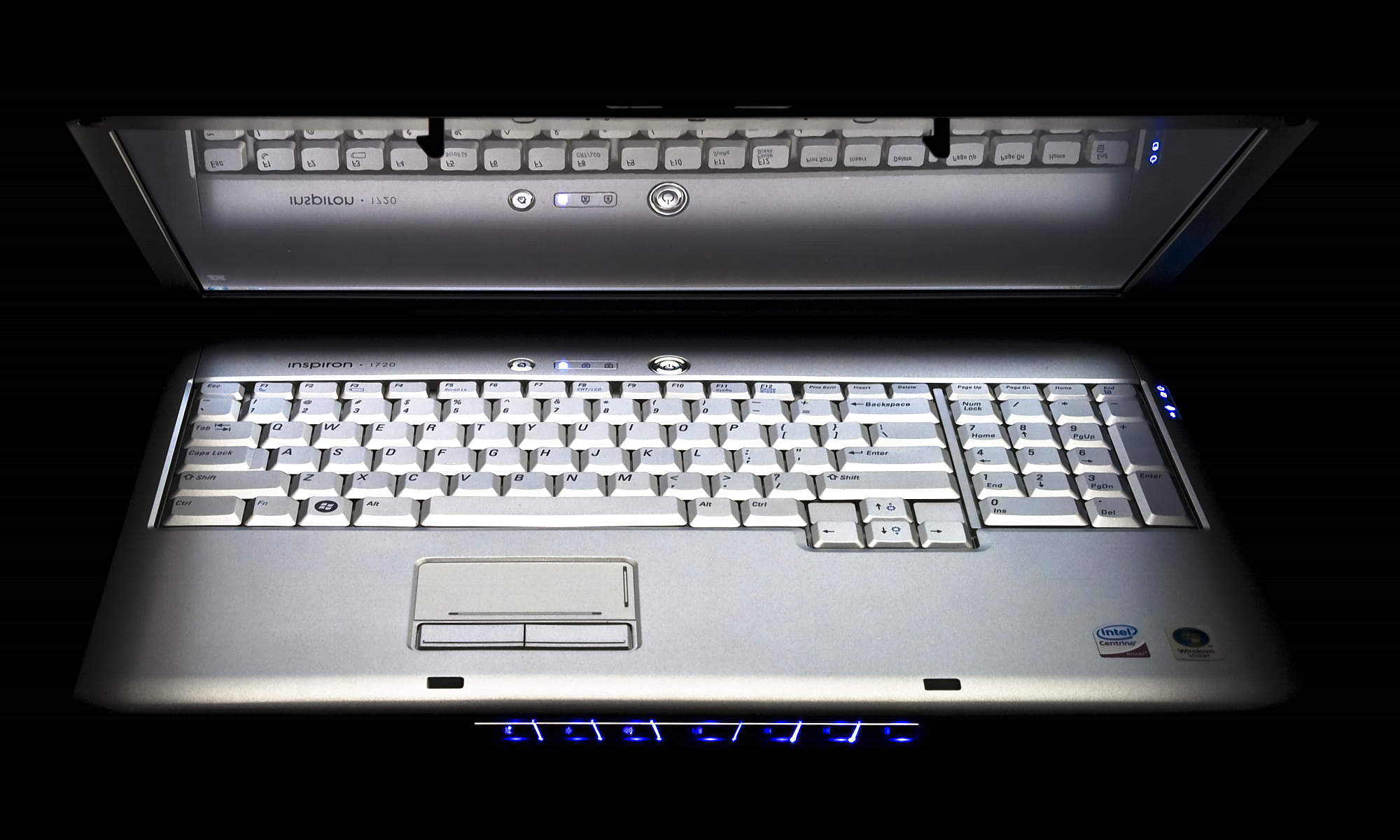 Dell Inspiron 1720 in all its glory!